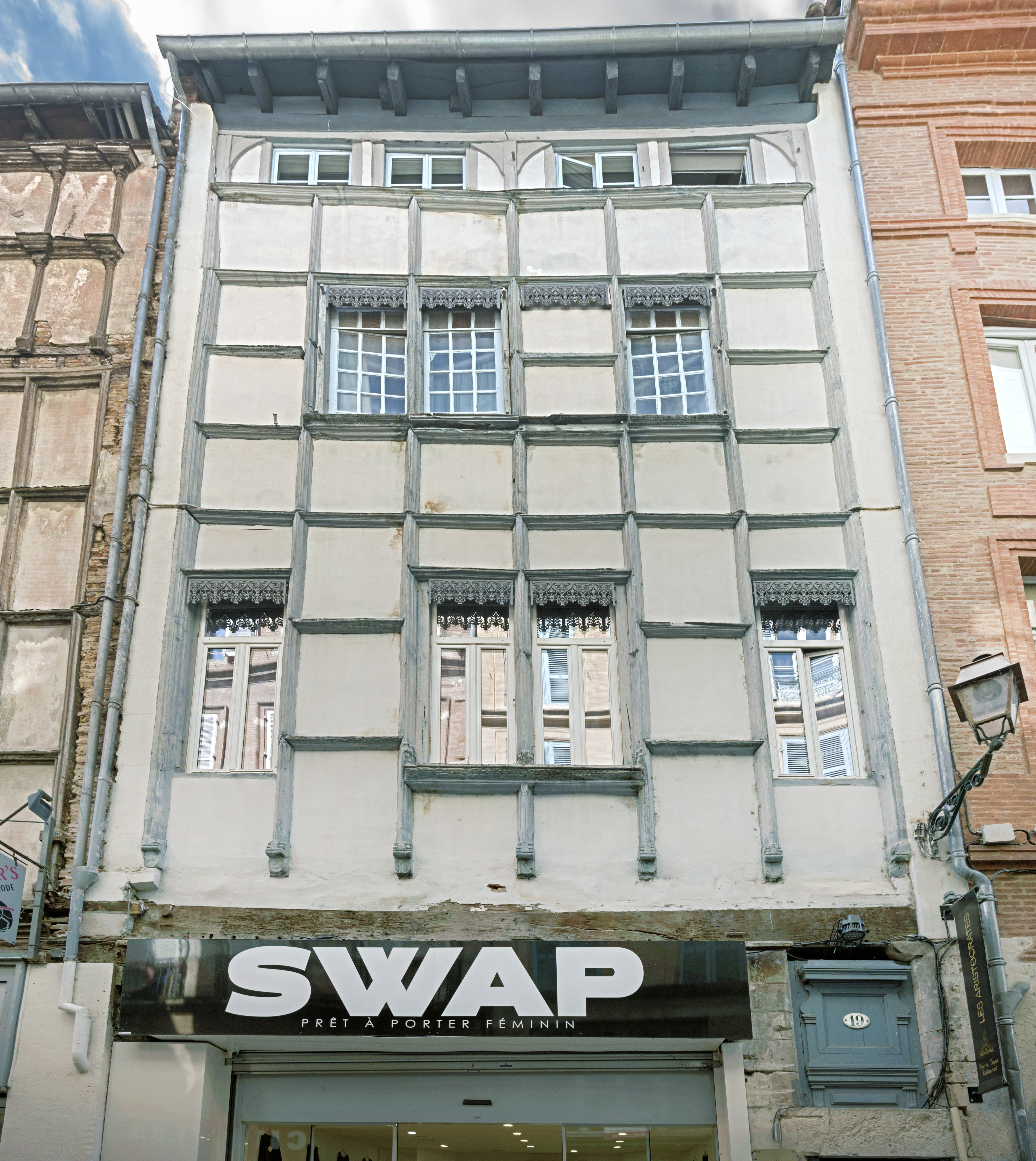 Hôtel d'Arnaud de Brucelles in Toulouse, facade rue des changes.